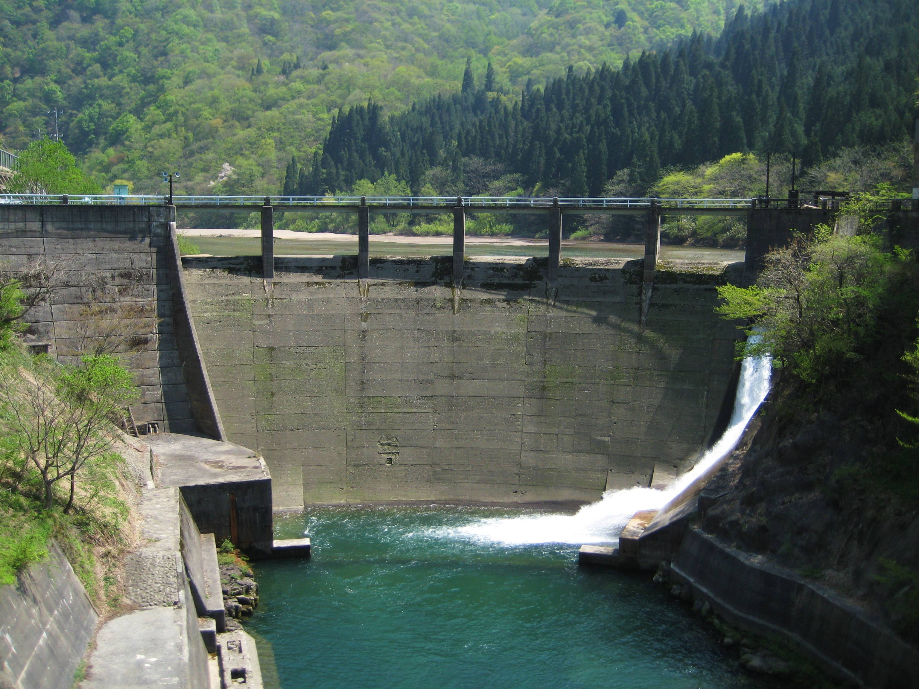 Itoshiro Dam.